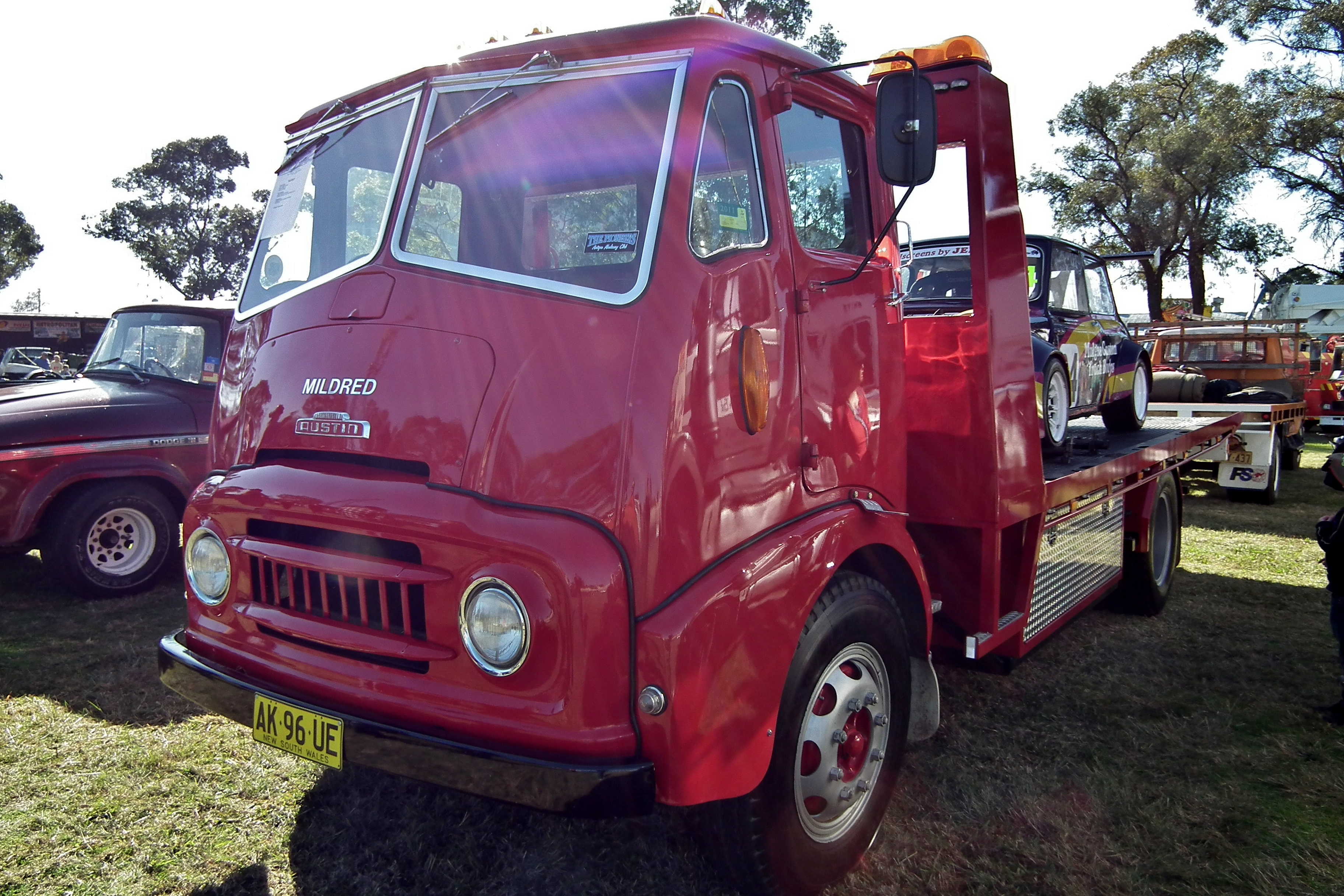 1956 Austin table top. Taken at the 2011 Sydney Antique & Classic Truck Show, held at the Museum of Fire in Penrith, NSW.